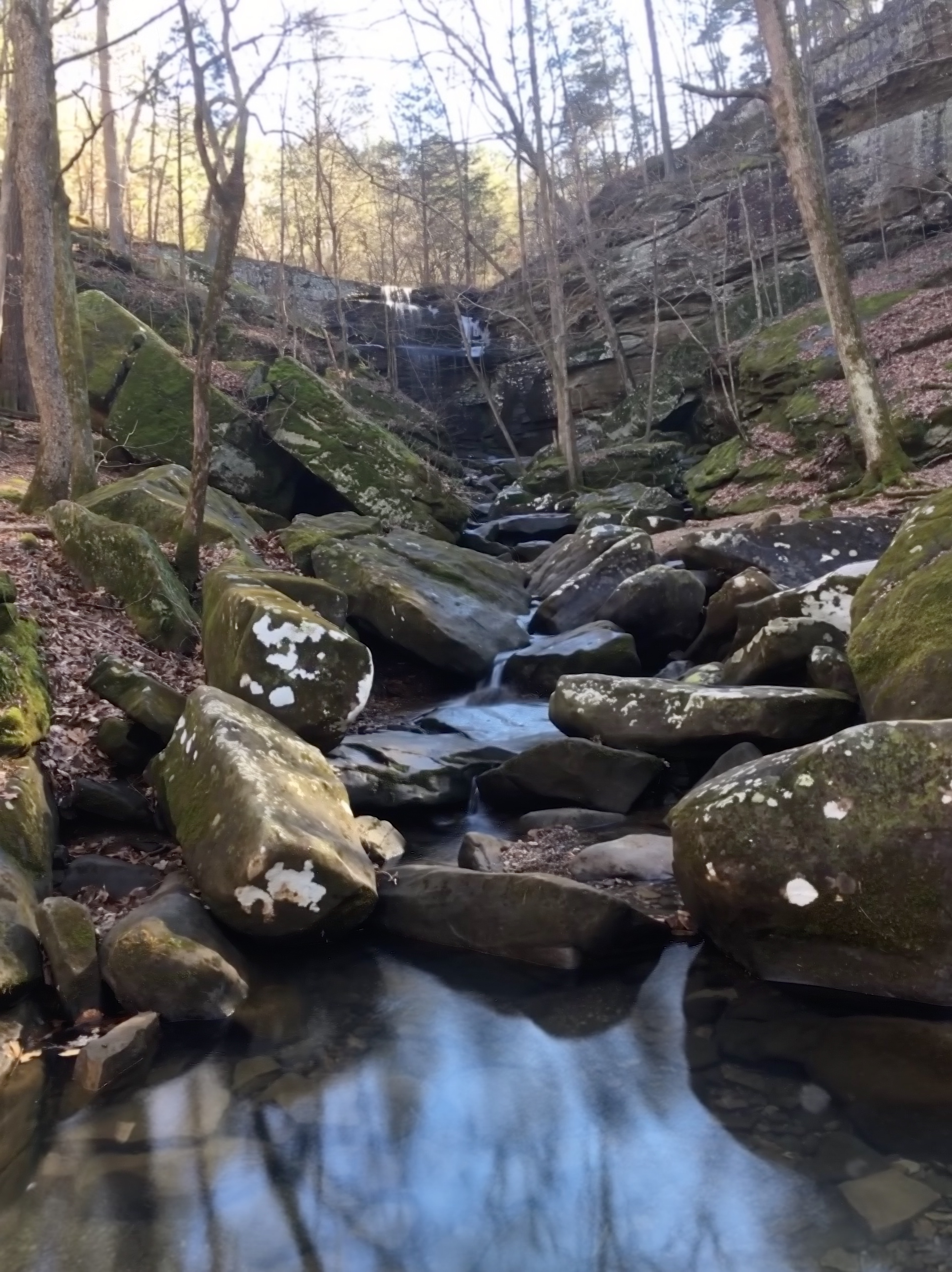 A long of exposure of Burden Falls as it appeared in early 2019.